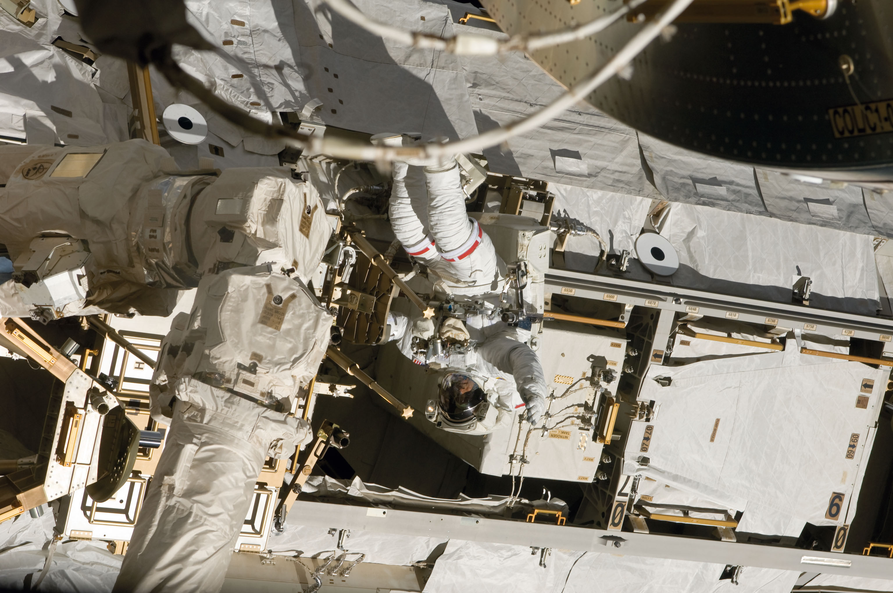 Astronaut Joseph Acaba, STS-119 mission specialist, participates in the mission's third scheduled session of extravehicular activity (EVA) as construction and maintenance continue on the International Space Station.